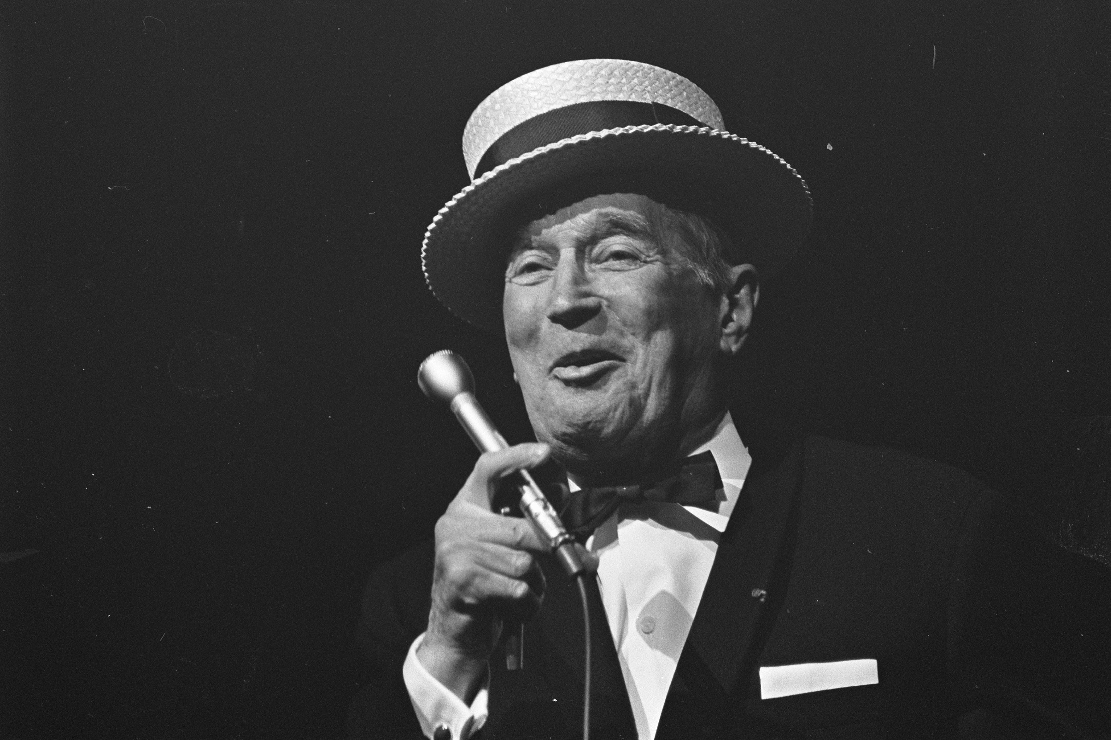 Maurice Chevalier's last concert in the Netherlands: Concertgebouw Amsterdam, 9 Febr. 1968